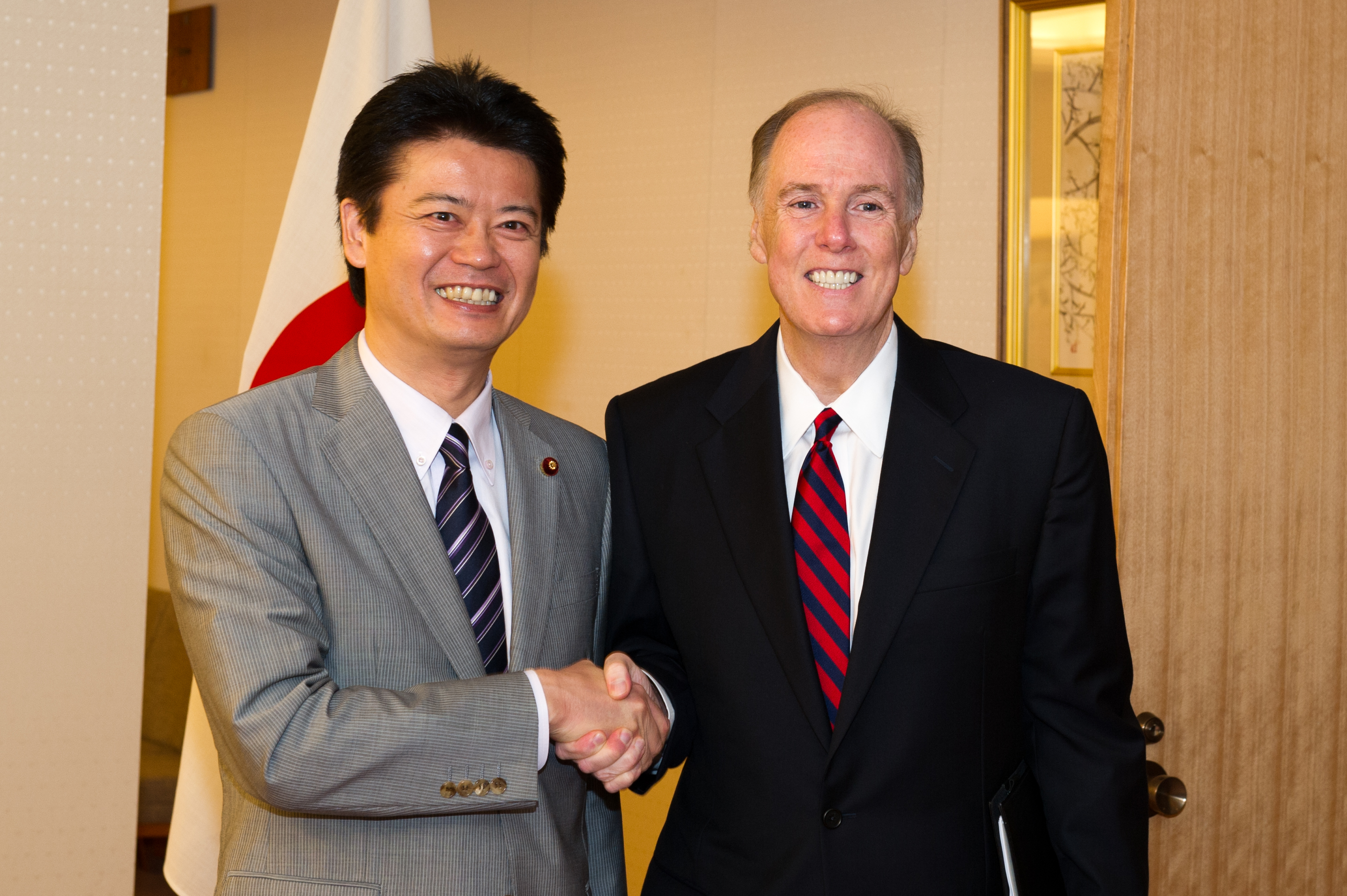 TOKYO, Japan (July 26, 2012) National Security Advisor Thomas Donilon meets Japan’s Foreign Minister Koichiro Gemba [State Department photo by William Ng/Public Domain]